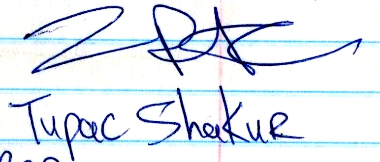 Signature of the late hip-hop artist Tupac Shakur taken from a 1995 letter written by Tupac to Deathrow Records publicist Nina Bhadreshwar from Clinton Correctional Facility.